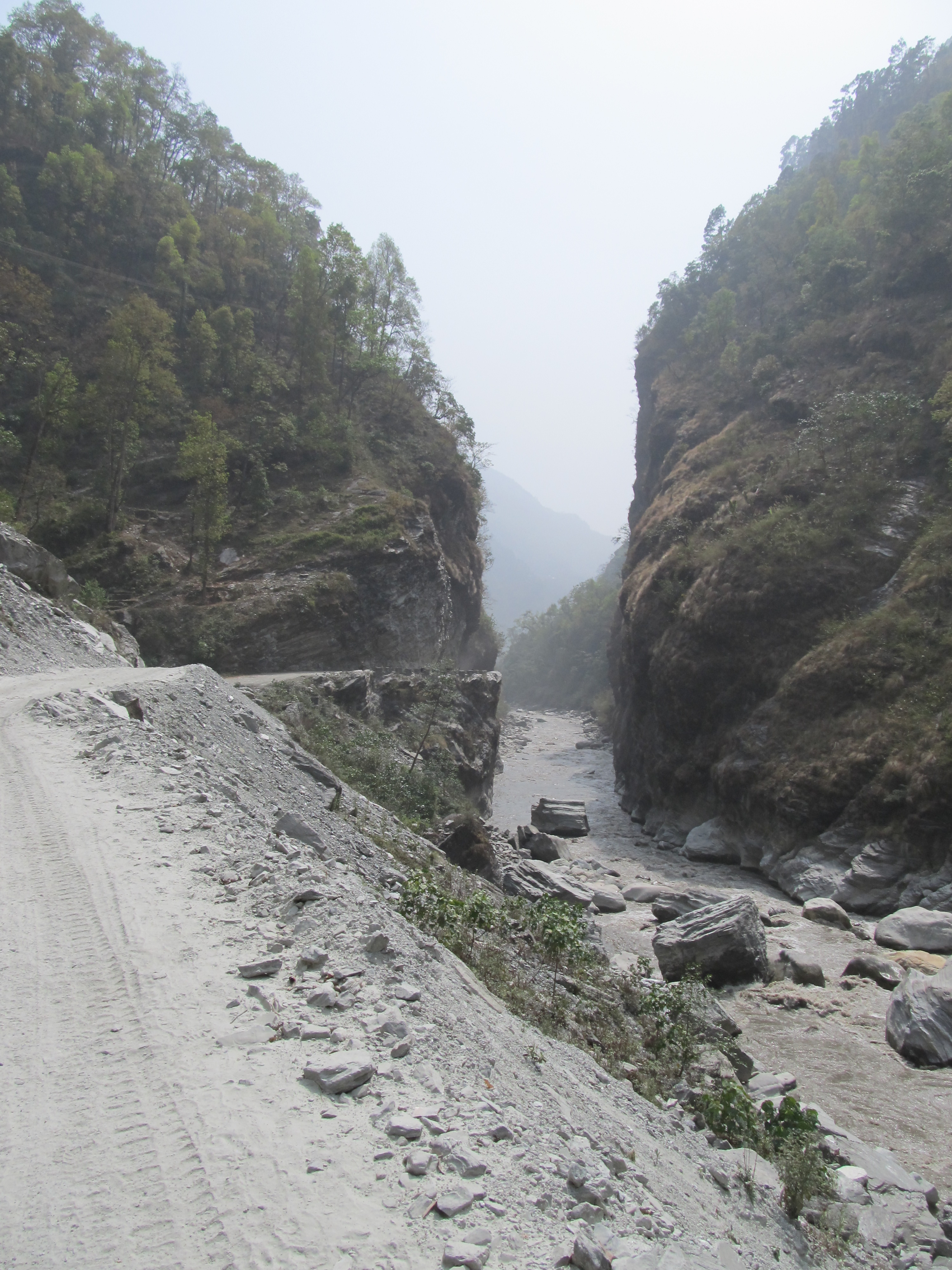 Bottleneck south of Tatopani, entering from the north